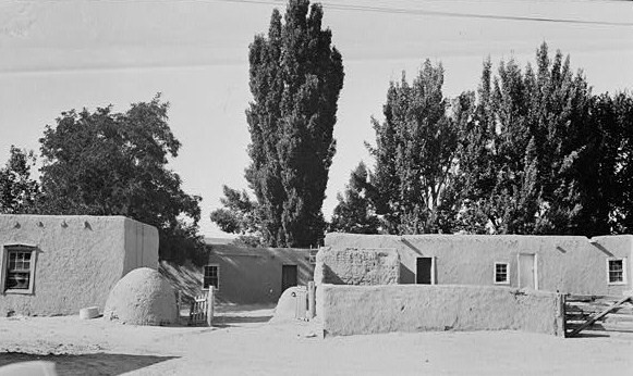 Alcalde Village, Site of San Gabriel, Alcalde (Rio Arriba County, New Mexico) - (cropped). Historic American Buildings Survey—HABS image.